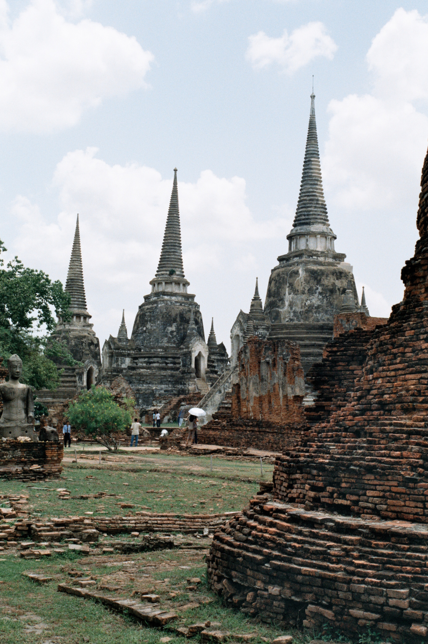 Wat Phra Si Sanphet